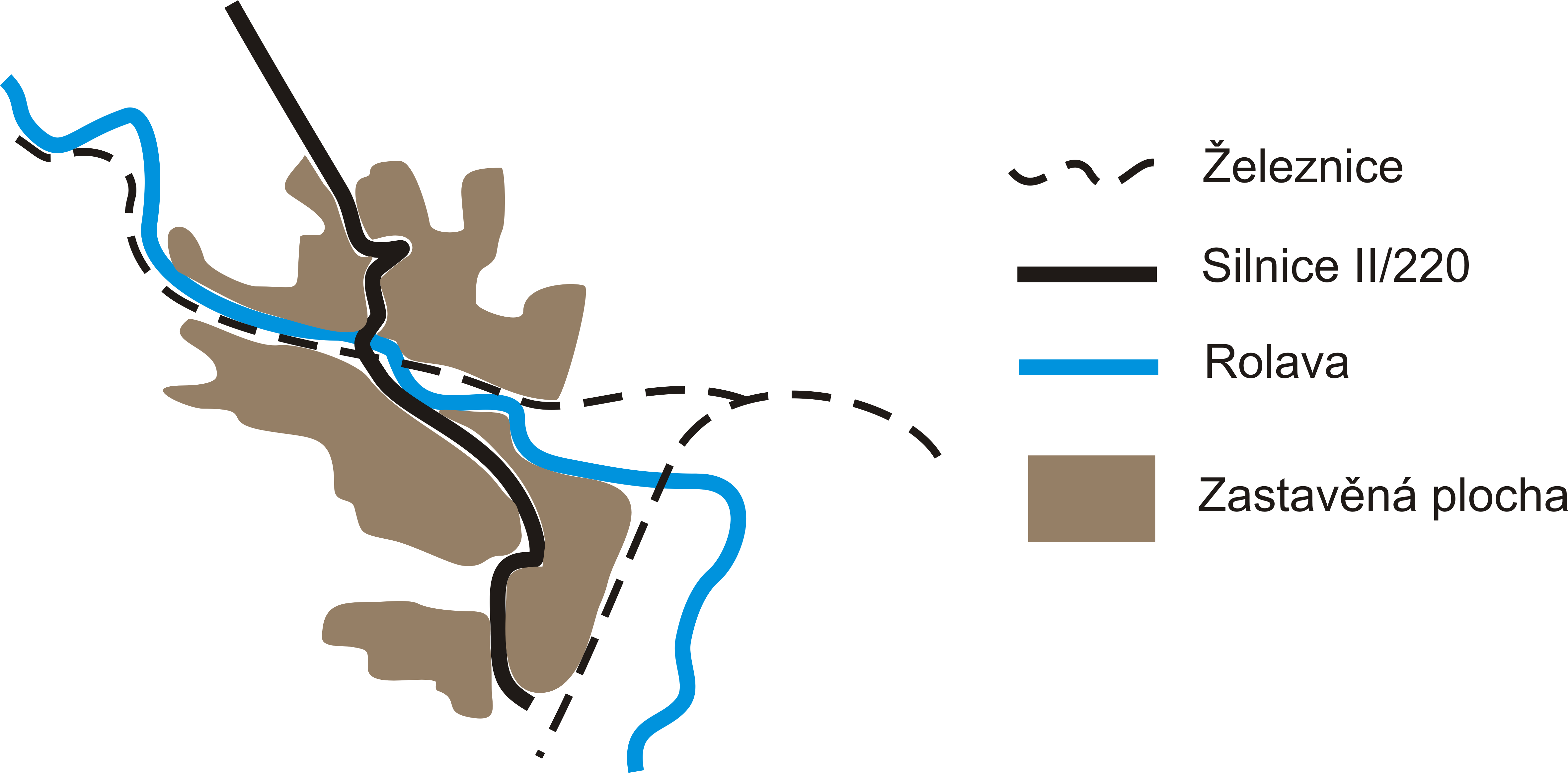 Map of Stará Role (part of the city of Carlsbad)